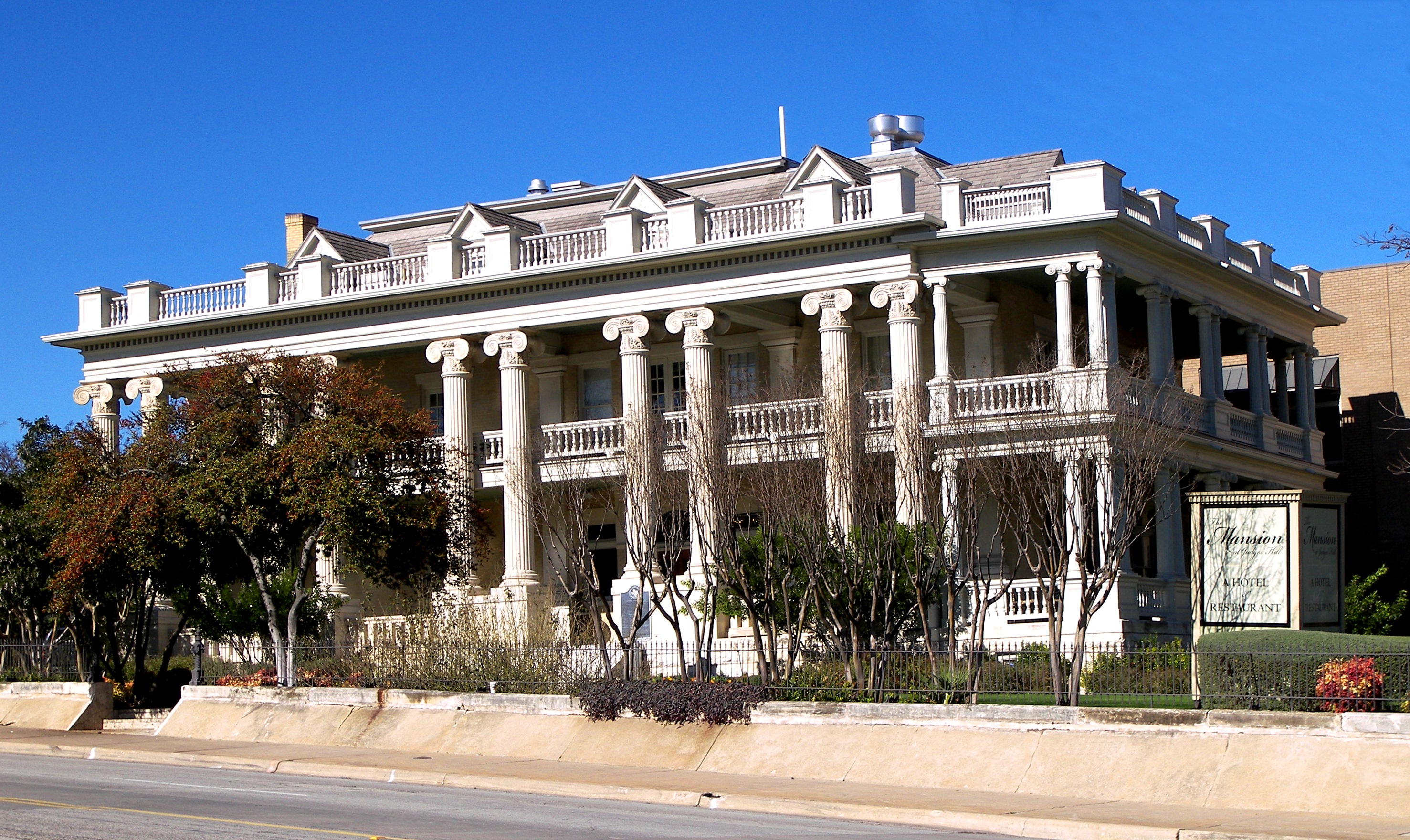 The Goodall Wooten House also known as "The Mansion at Judges' Hill" located at 1900 Rio Grande, Austin, Texas, United States. The structure was listed on the National Register of Historic Places on April 3, 1975.